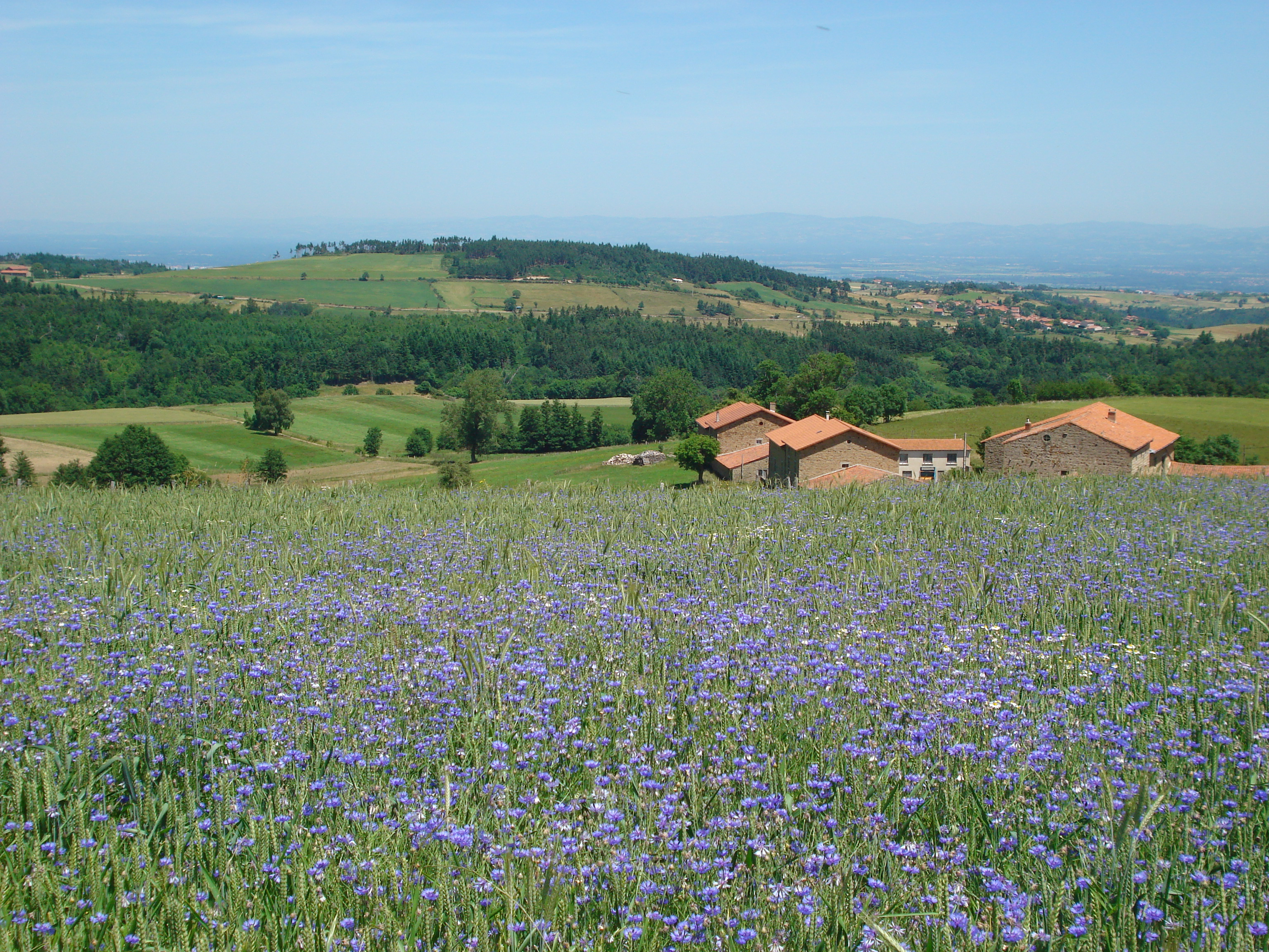 Marols (Loire, Fr), landscape of Bas-Forez.